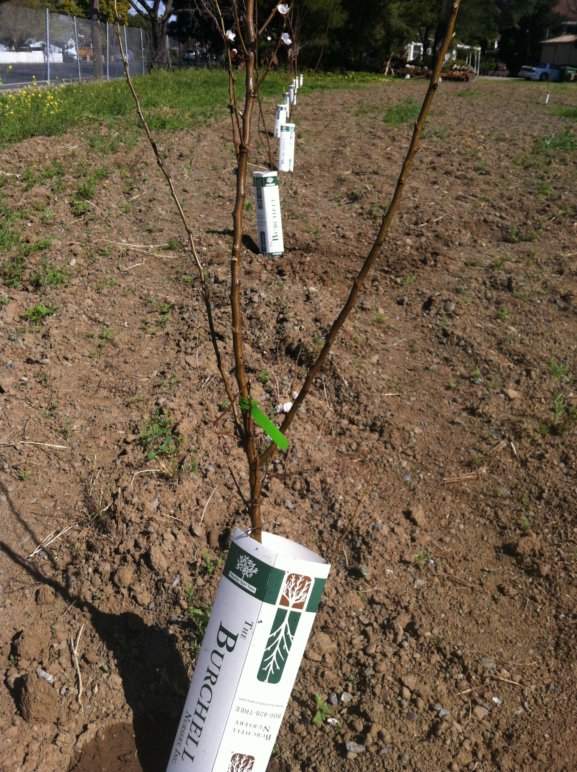 Blenheim apricot trees with blossoms planted in March of 2013 on the Dubcich farm in Campbell, CA. The last remaining farm in the city.